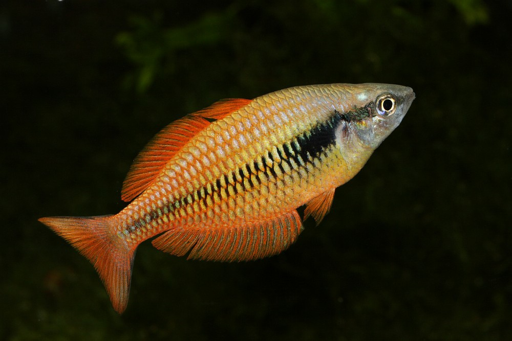 Lake Kurumoi Rainbowfish (Melanotaenia parva) - male - in aquarium.